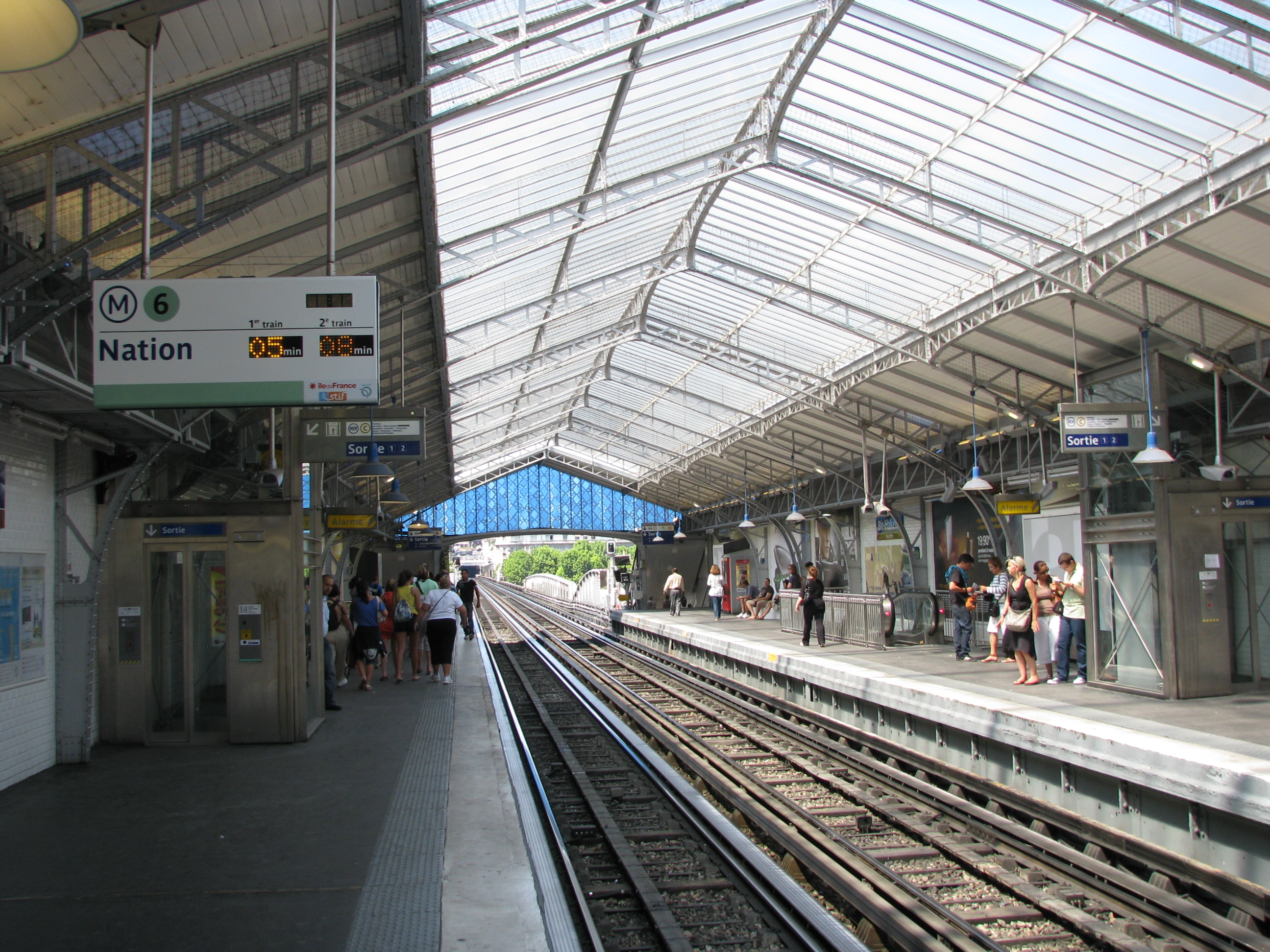 Bir-Hakeim Paris Metro Station